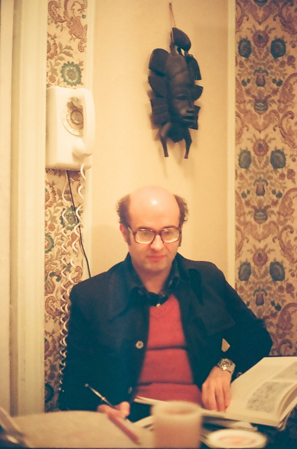 Ardeshir Mohasses by Hadi Hazavei